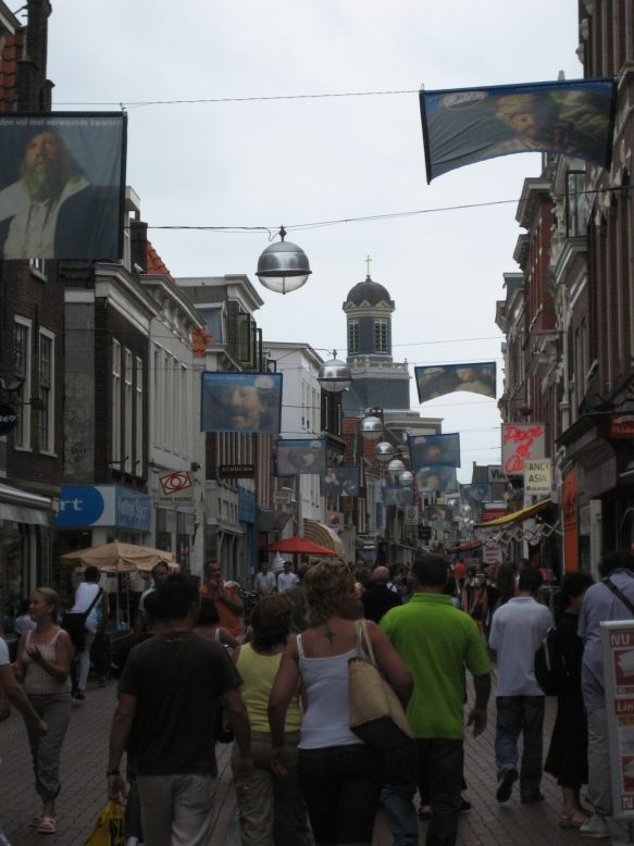 Imagen de la Haarlemmerstraat (calle comercial) en la ciudad de Leiden (Países Bajos), con la iglesia Hartebrug Kerk al fondo. Foto tomada por Enrique Boira Freire (usuario Enboifre), el 30 de julio del 2006. Image of the Haarlemmerstraat (shopping street) in the city of Leiden (The Netherlands), with the church Hartebrug Kerk at the back. Picture taken by Enrique Boira Freire (user Enboifre), on the 30th of July, 2006.